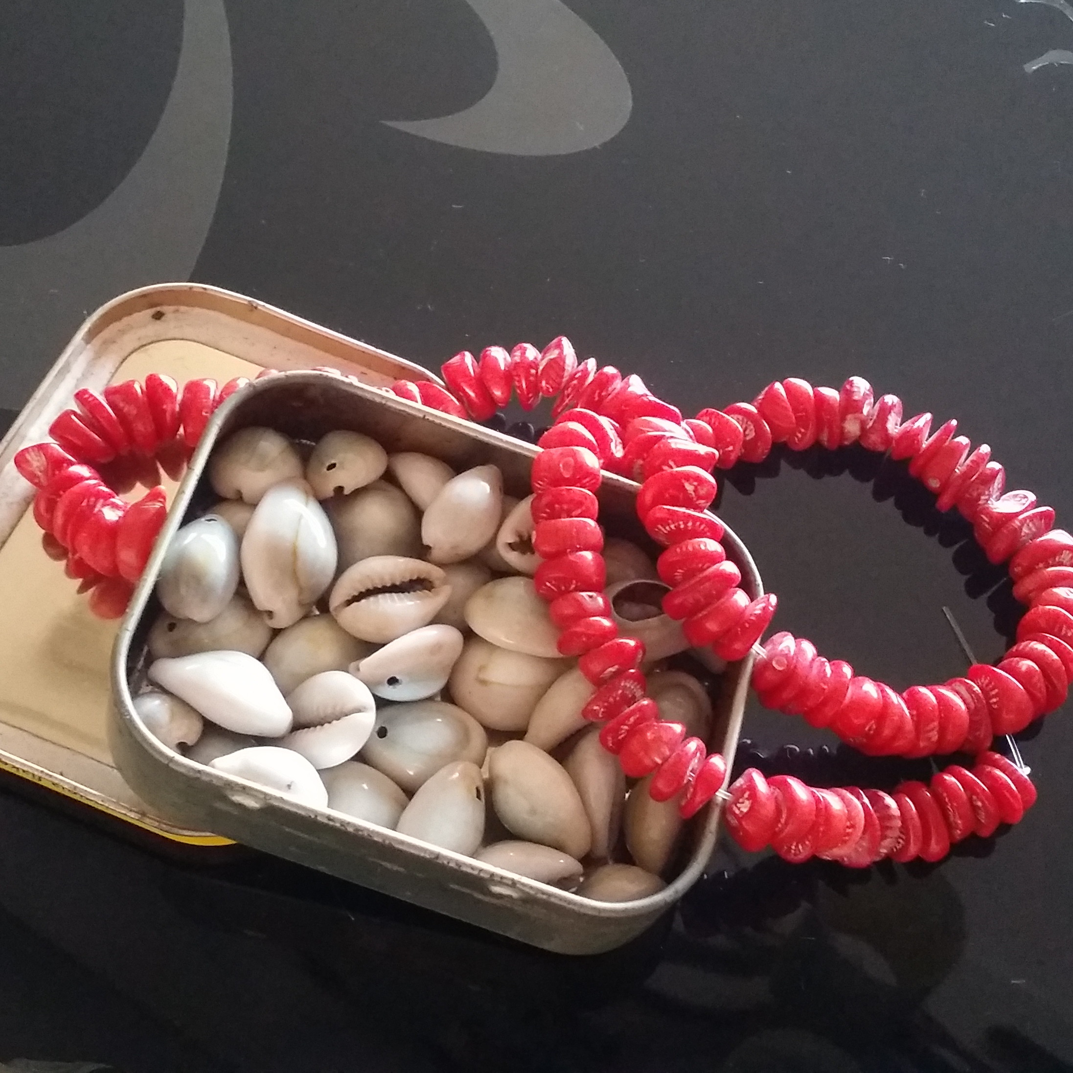 Natural coral and shell beads.